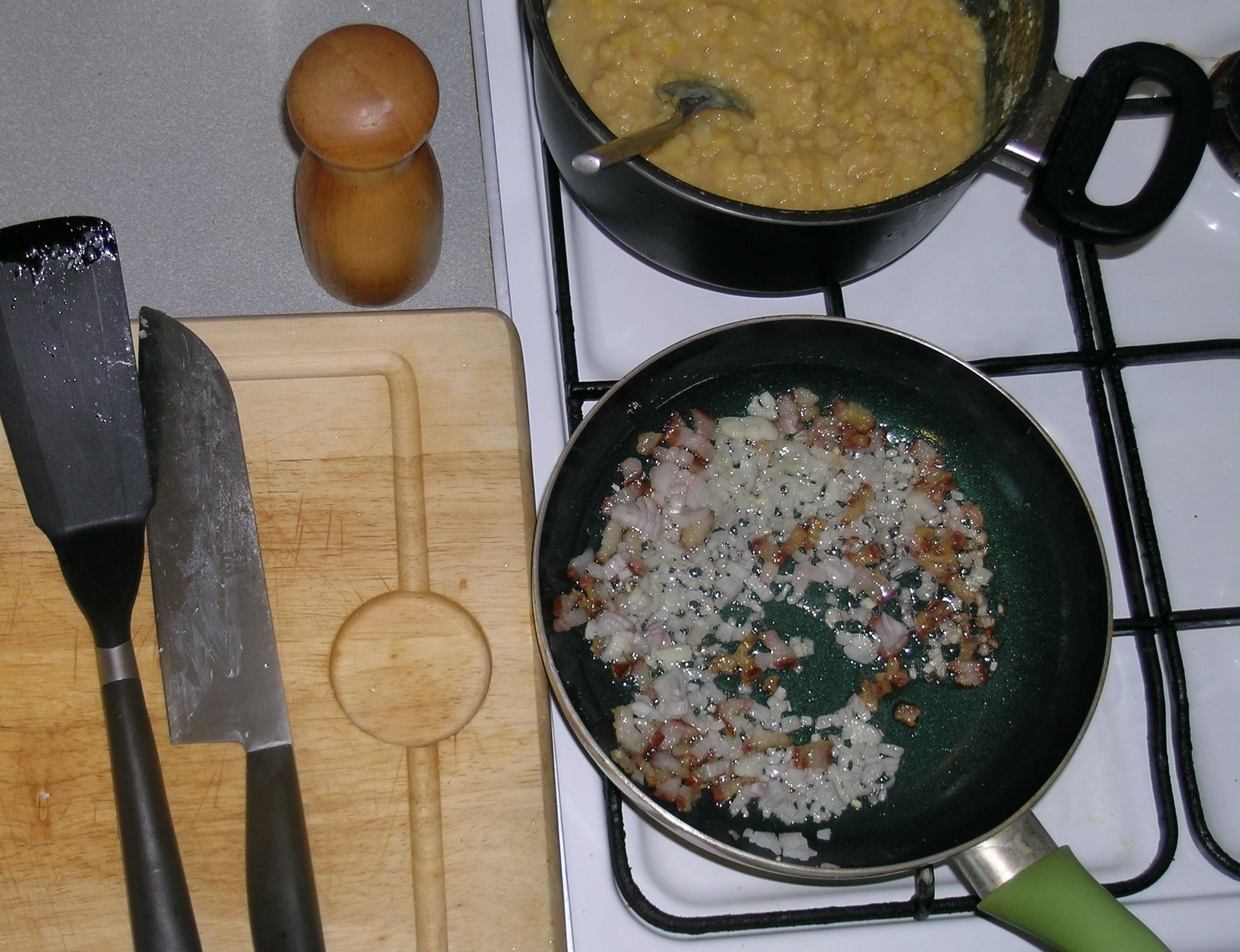 Pease pudding Polish style - frying bacon and onion